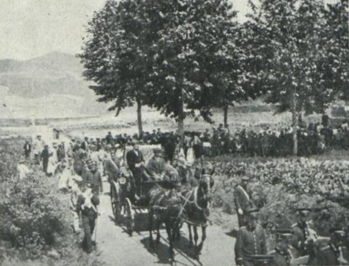 homage celebrations to Joaquim Vayreda, Olot, 1912